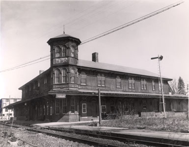 The union station currently in North Canaan, Connecticut.